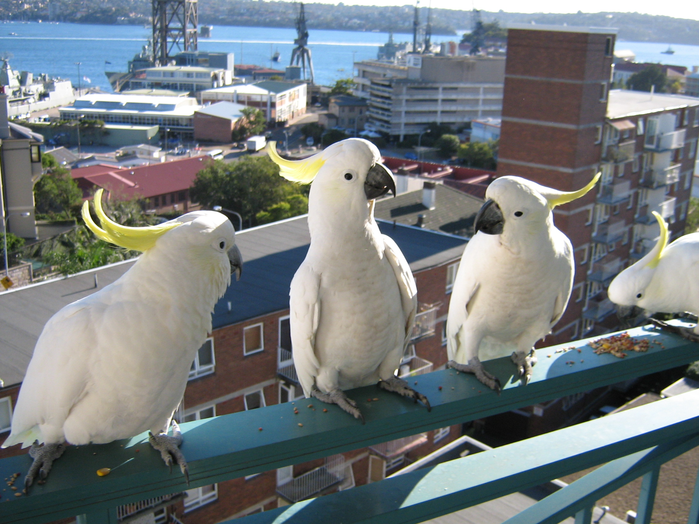 Sulphur-crested Cockatoo (Cacatua galerita) on a balcony in Sydney, Australia.